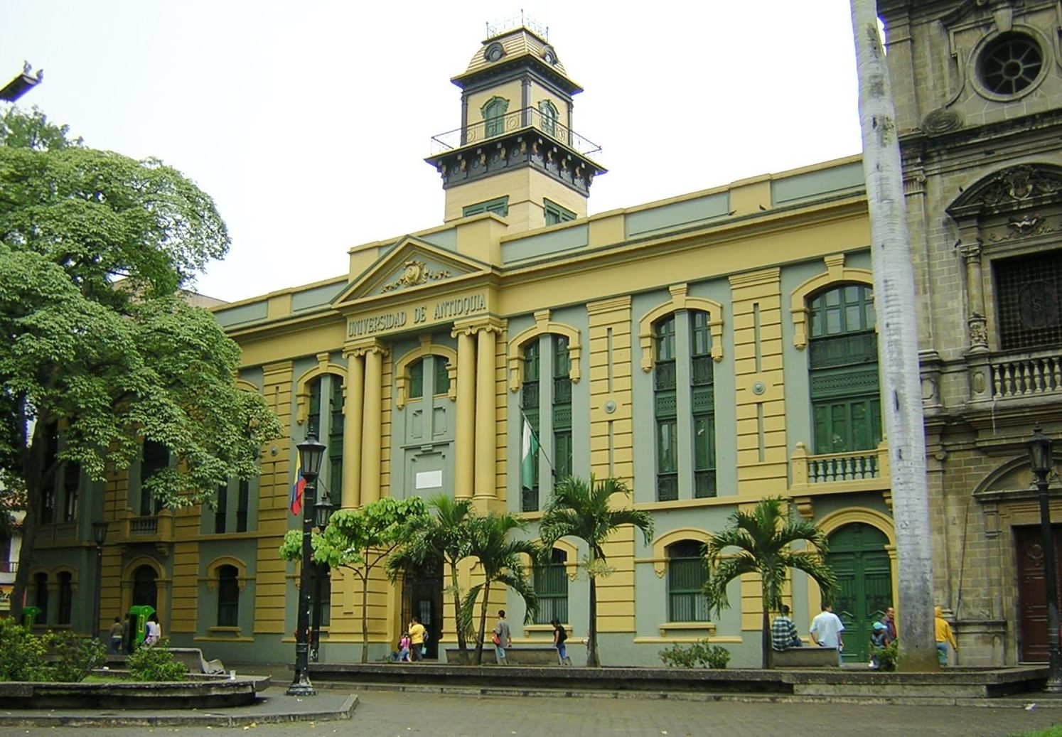 Paraninfo o aula máxima de la Universidad de Antioquia, Medellin, Colombia. (SajoR: Yo el autor de esta foto, que yo mismo tome, la libero al dominio público - I the author of this photo, that i myself takes, release it to the public domain)